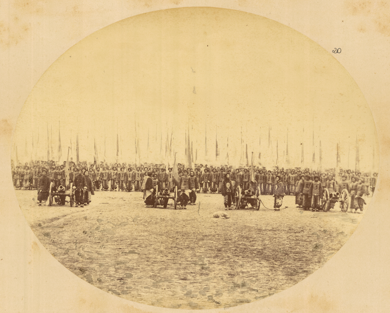 In 1874-75, the Russian government sent a research and trading mission to China to seek out new overland routes to the Chinese market, report on prospects for increased commerce and locations for consulates and factories, and gather information about the Dungan Revolt then raging in parts of western China. Led by Lieutenant Colonel Iulian A. Sosnovskii of the army General Staff, the nine-man mission included a topographer, Captain Matusovskii; a scientific officer, Dr. Pavel Iakovlevich Piasetskii; Chinese and Russian interpreters; three non-commissioned Cossack soldiers; and the mission photographer, Adolf Erazmovich Boiarskii. The mission proceeded from Saint Petersburg to Shanghai via Ulan Bator (Mongolia), Beijing, and Tianjin, and then followed a route along the Yangtze River, along the Great Silk Road through the Hami oasis, to Lake Zaysan, back to Russia. Boiarskii took some 200 photographs, which constitute a unique resource for the study of China in this period. Most of the photographs are included in this album, which later became part of the Thereza Christina Maria Collection assembled by Emperor Pedro II of Brazil and given by him to the National Library of Brazil. Cannons; Chinese; Flags; Memory of the World; Soldiers; Weapons